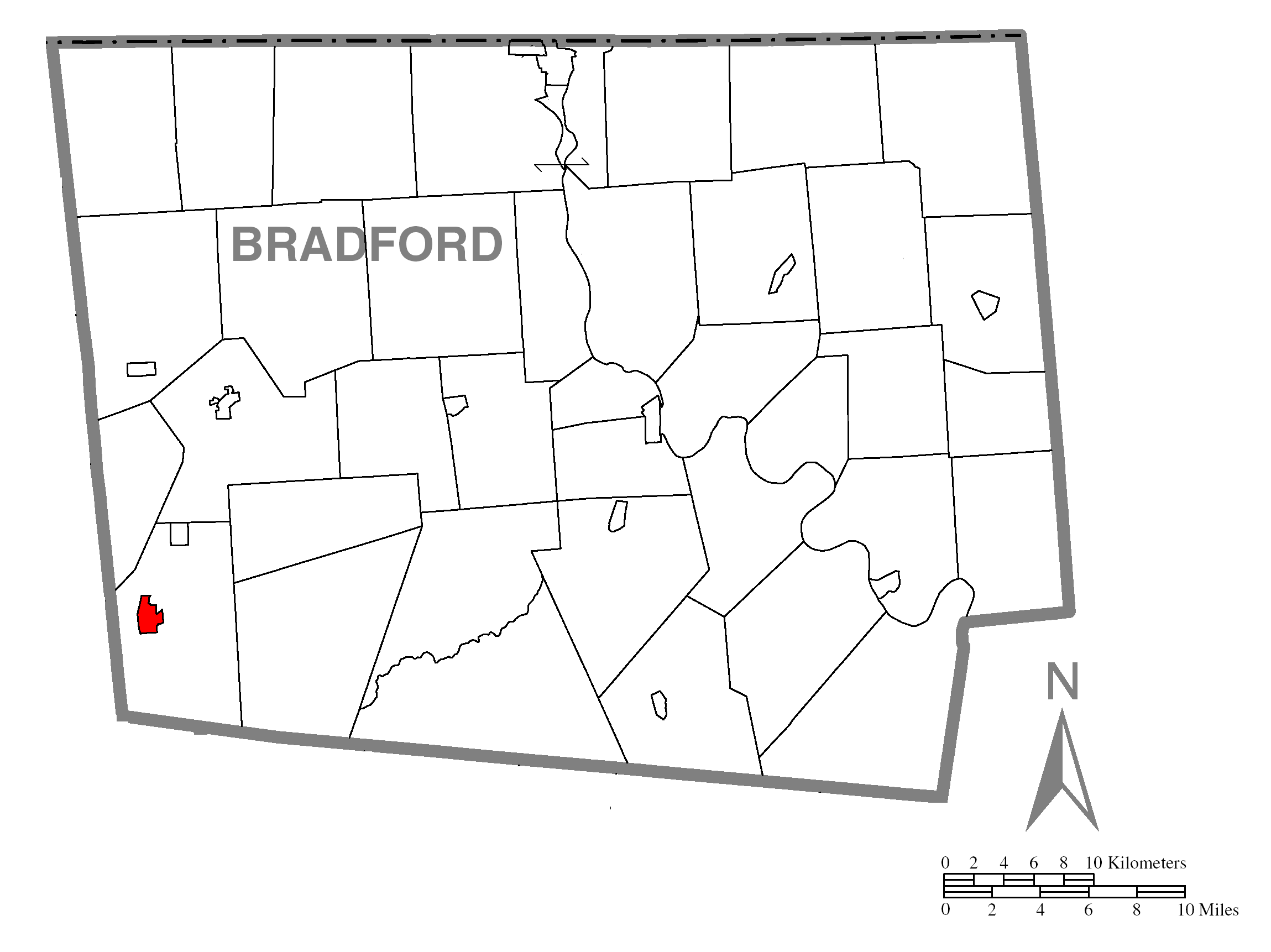 A map of Bradford County showing Canton, Pennsylvania (alternate) highlighted on the map.